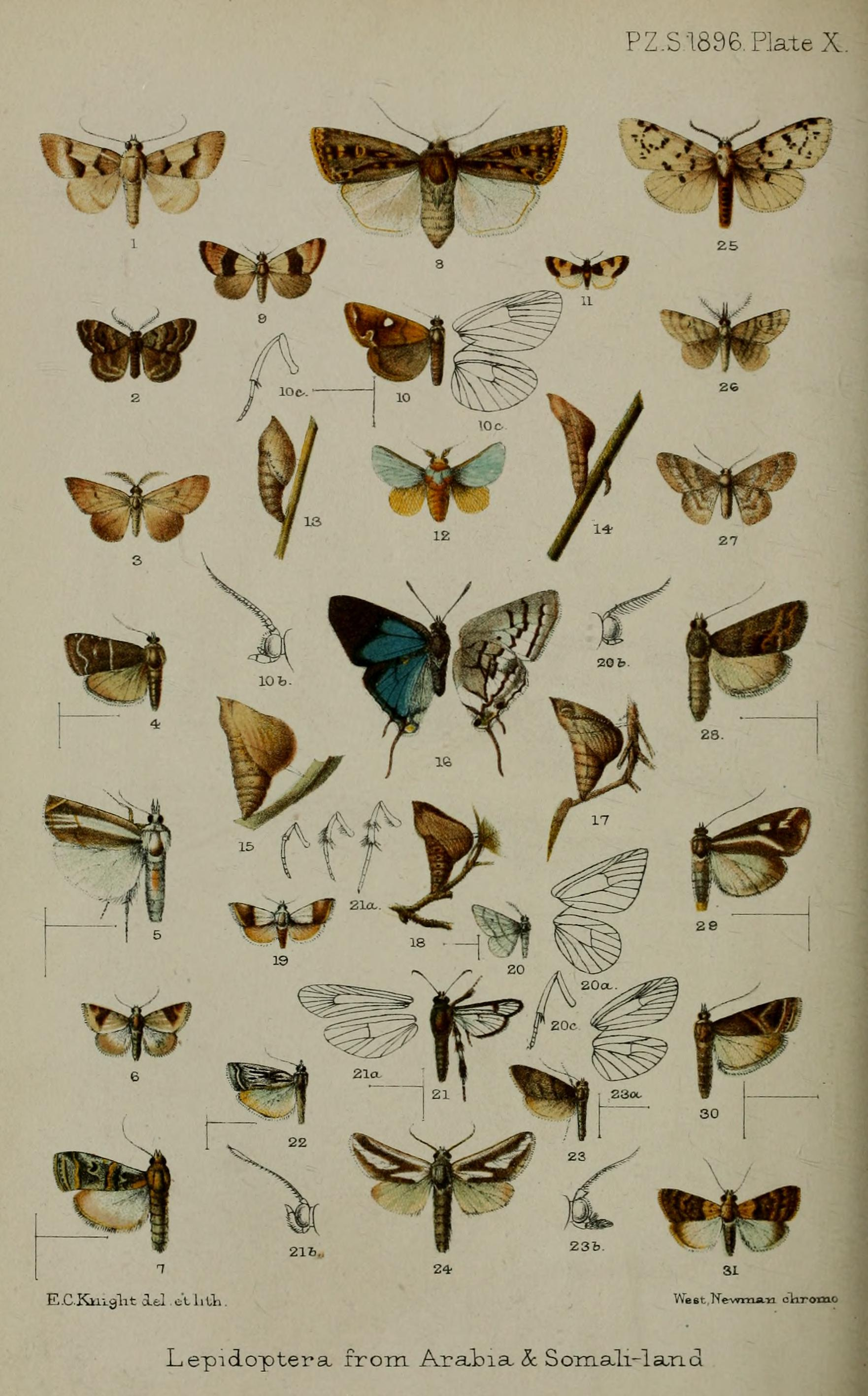 Butler, A.G. (1896f): On the butterflies obtained in Arabia and Somaliland by Capt. Chas. G. Nurse and Col. J.W. Yewbury in 1894 and 1895. Proceedings of the Zoological Society of London 1896:242-257. Plate 10 text